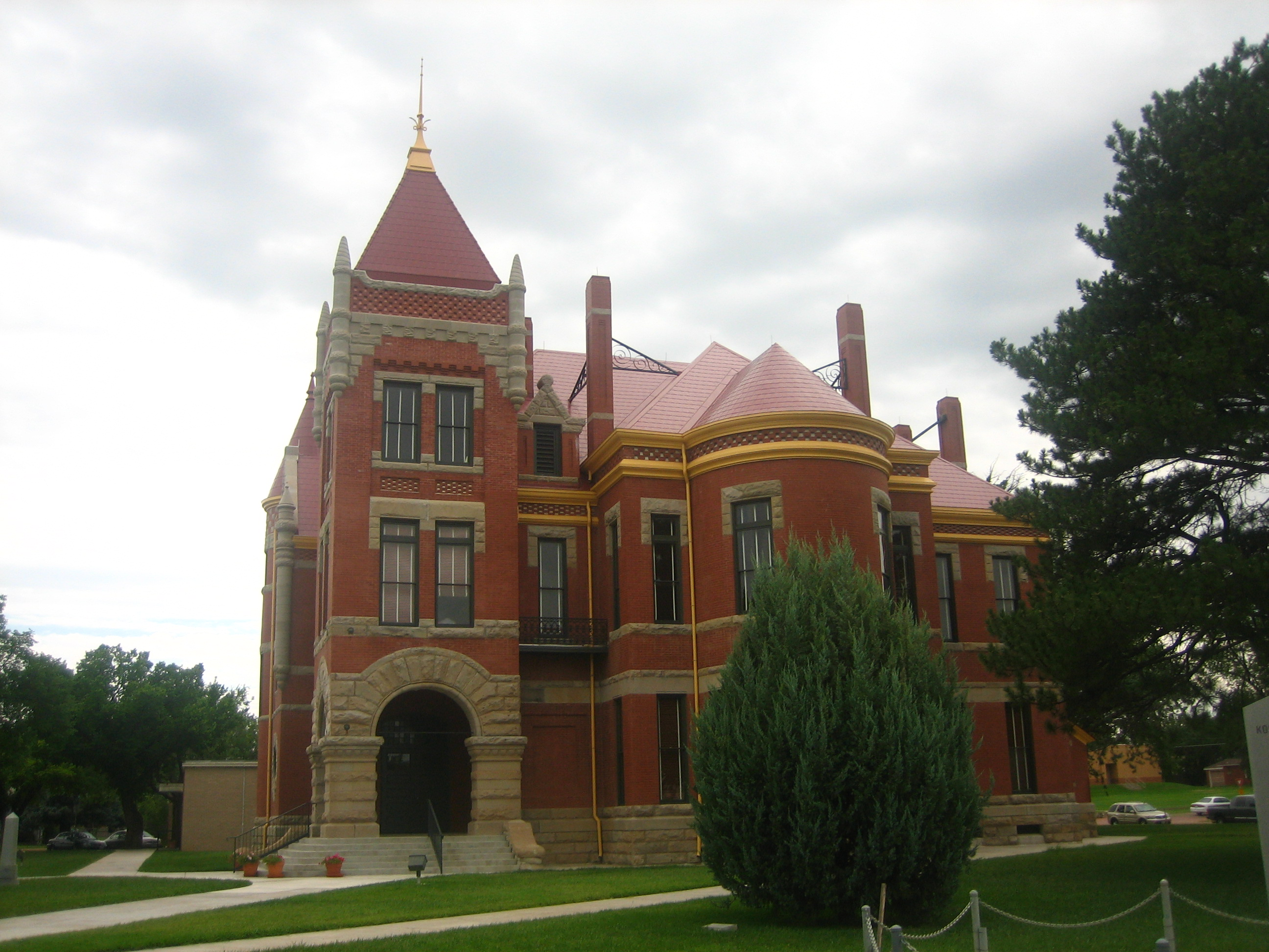 The Donley County Courthouse in Clarendon, Texas, United States. NRHP - February 17, 1978. Recorded Texas Historic Landmark - 2006. I took photo on July 15, 2008.Billy Hathorn (talk) 22:41, 22 July 2008 (UTC)